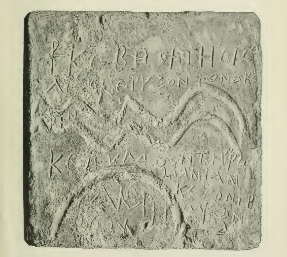 A tile from Sirmium, bearing an inscription in Greek: "Χρ(ιστέ) Κ(ύριε) βοήτι τῆς πόλεως κ΄ἔρυξον τὸν Ἄβαριν κὲ πύλαξον τὴν Ῥωμανίαν κέ τὸν γράψαντα ἀμήν" and dating from 579-582.